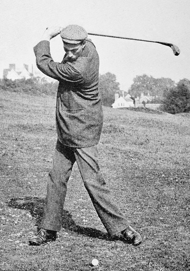 Golfer Jack Rowe in full swing, circa July 1900.